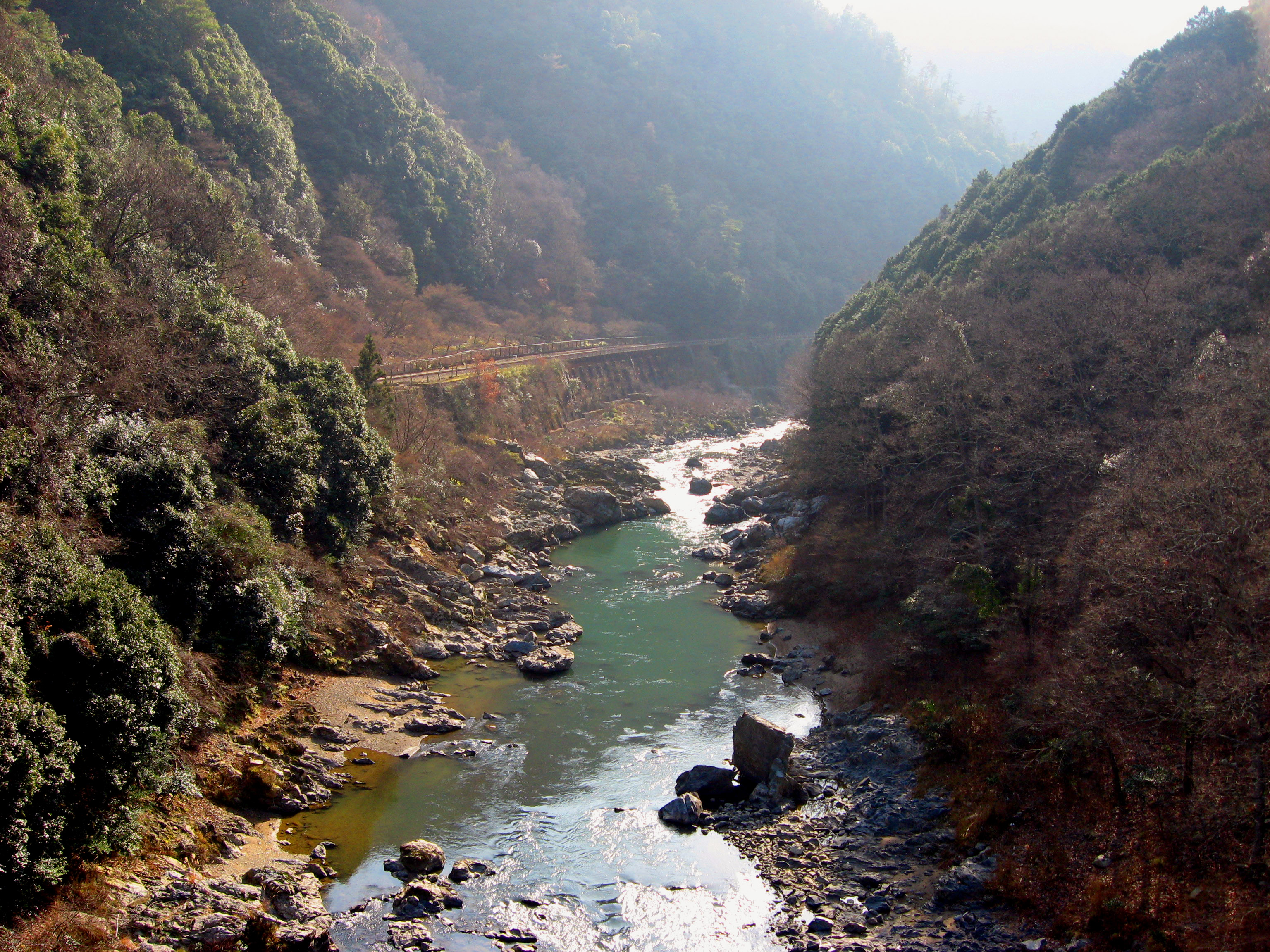 Hozukyo, in Nishikyo Ward, Kyoto City, it is taken from JR Hozukyo Station.